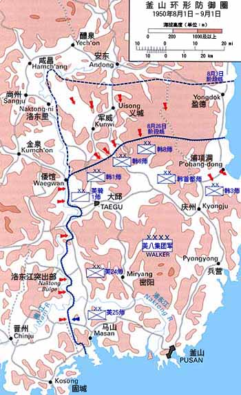 Map of the Pusan Perimeter, August 1950.